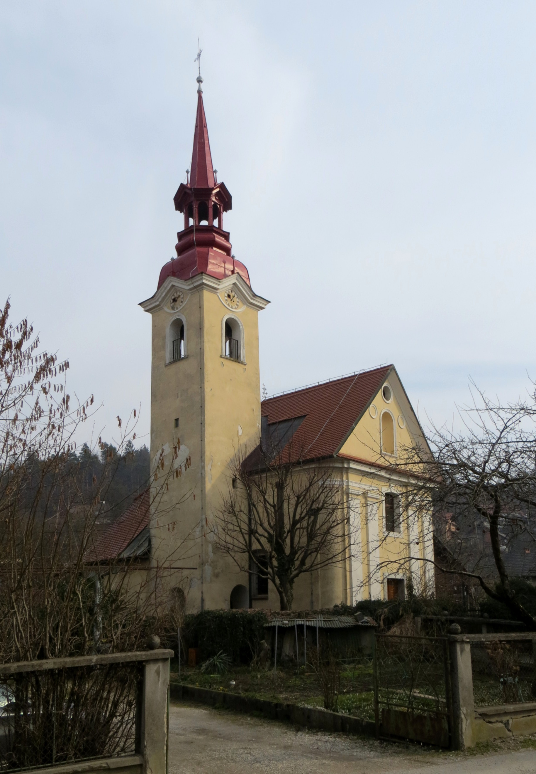 Saint Andrew's Church in Srednje Gameljne, City Municipality of Ljubljana, Slovenia